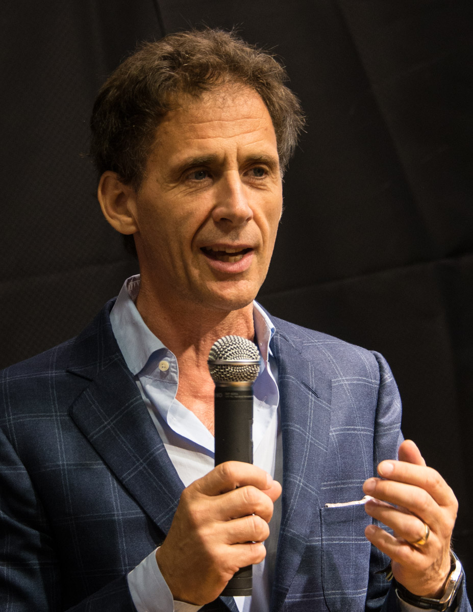 David Lagercrantz, in Stockholm shortly after midnight on Aug. 27, 2015, at the world premiere of his book "The Girl in the Spider's Web".